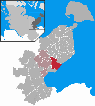 This map shows the area of the Gemeinde (municipality) Schashagen in the Kreis (district) Ostholstein, Schleswig-Holstein, Germany.